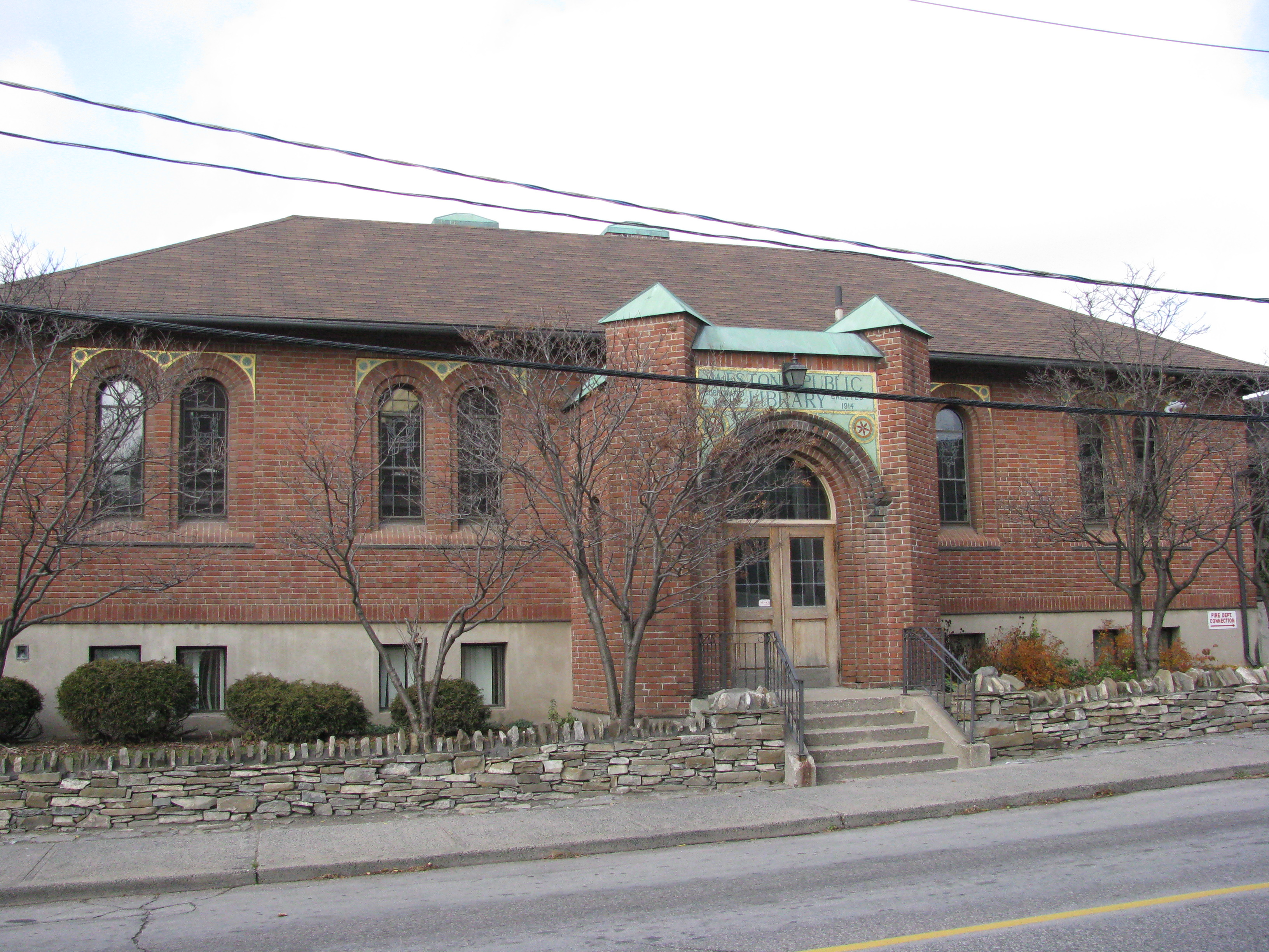 The historic Weston Public Library on King Street, Weston.